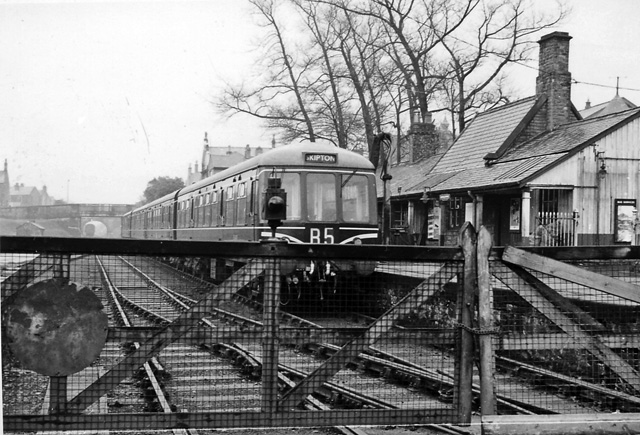 Barnoldswick Station View SE from buffer-stops; terminus of branch from Earby, closed to passengers 1965-09-27 — in spite of the introduction of Diesel Multiple-Units, as seen; goods traffic continued until 1966-01-08.